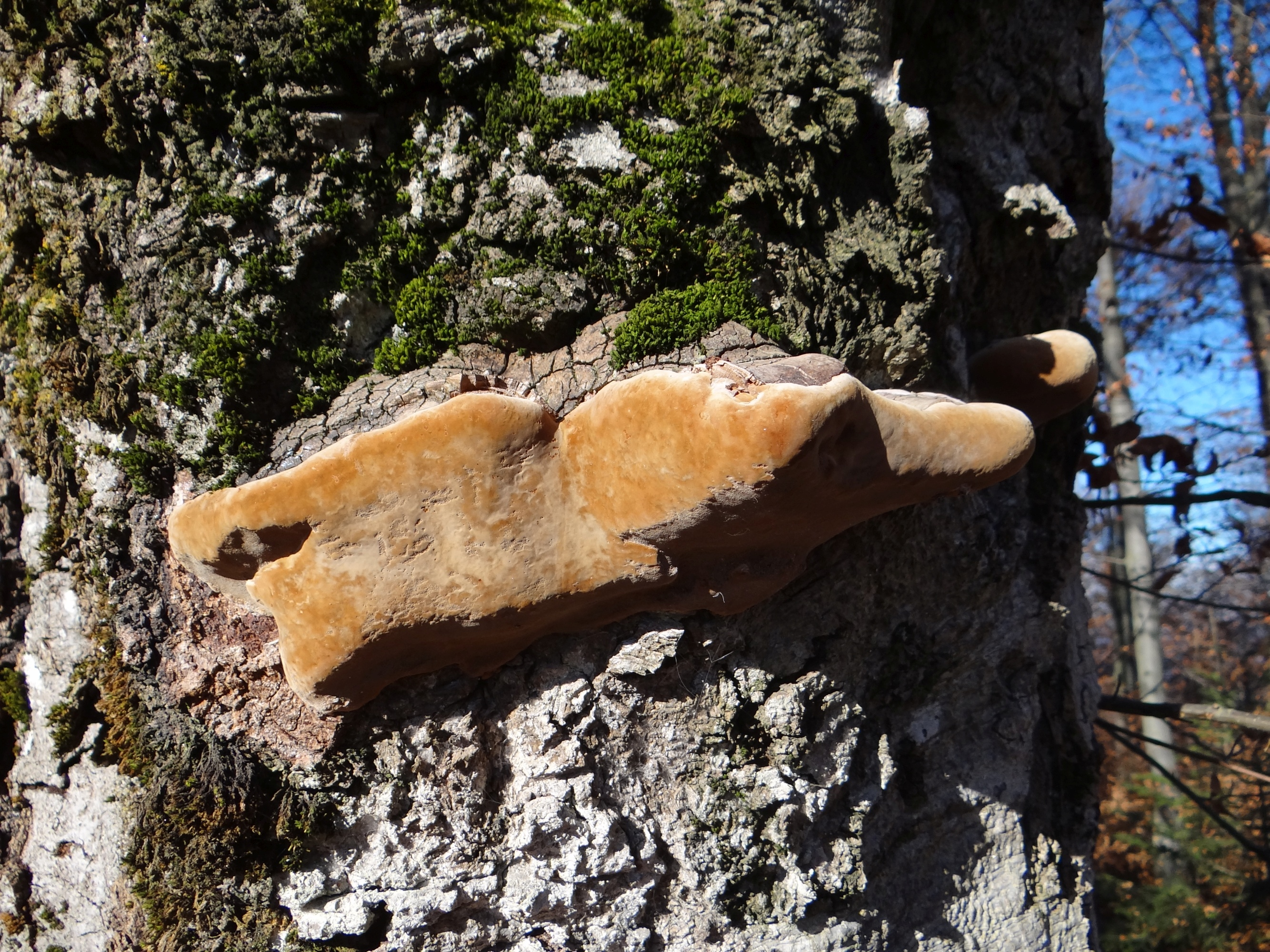 Phellinus igniarius (location: Poland, Gorce, Wierch Lelonek)